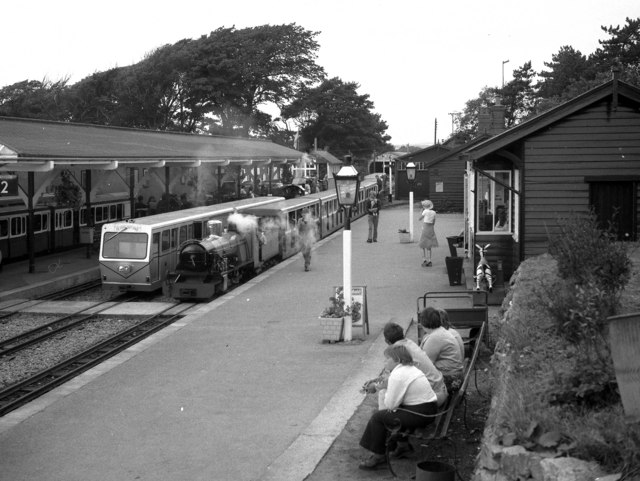 Ravenglass station, Cumberland At Ravenglass, the main line railway around the Cumberland coast connects with the narrow-gauge Ravenglass and Eskdale Railway, which runs a few miles inland through attractive scenery to a village called Boot. Here, steam locomotive Northern Rock is arriving with a train into Platform 1, while internal combustion railcar Silver Jubilee rests on the centre road between Platforms 1 and 2.